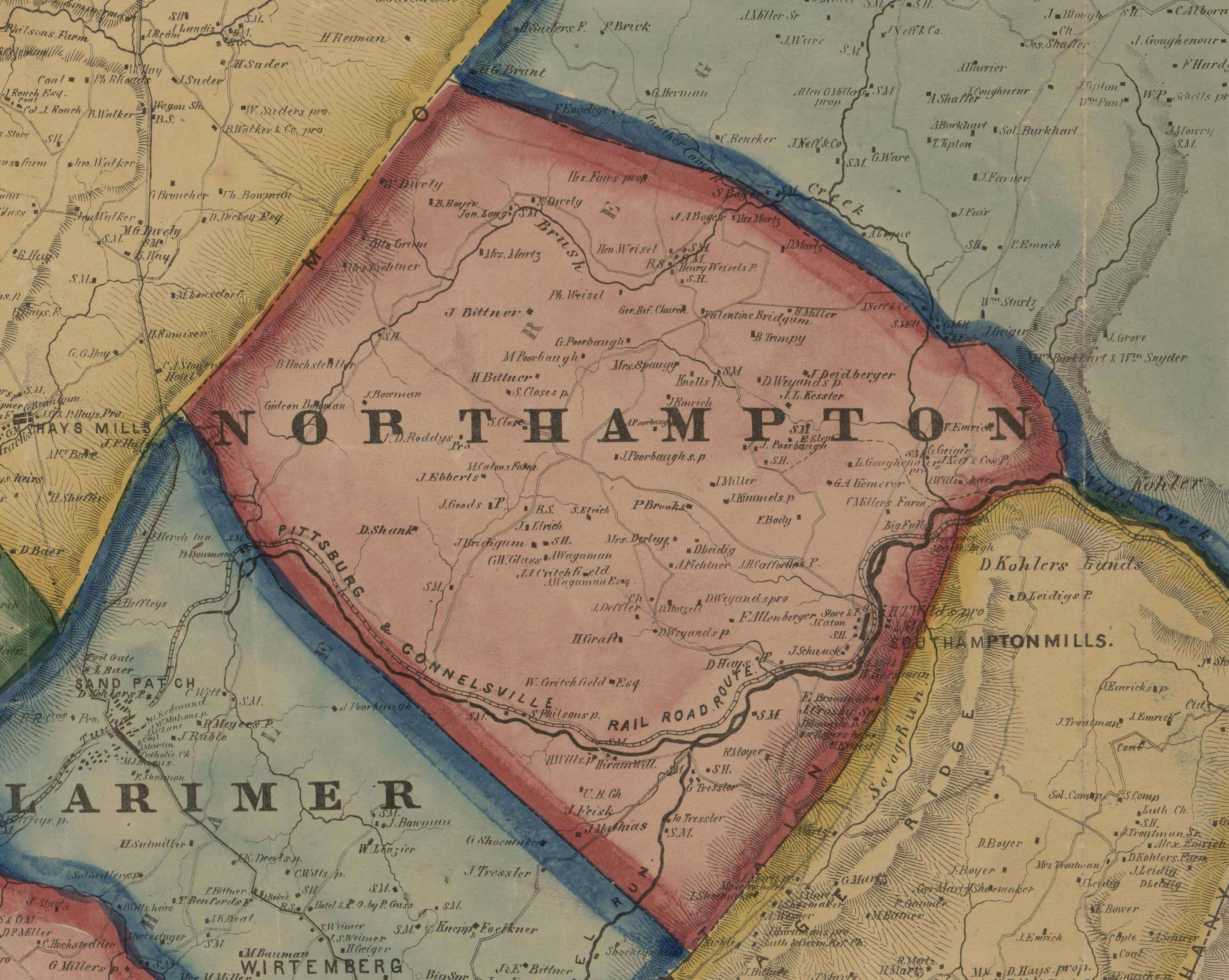 Map of Northampton Township, Somerset County, Pennsylvania, taken from 1860 Edward L. Walker map of Somerset County available at the Library of Congress website